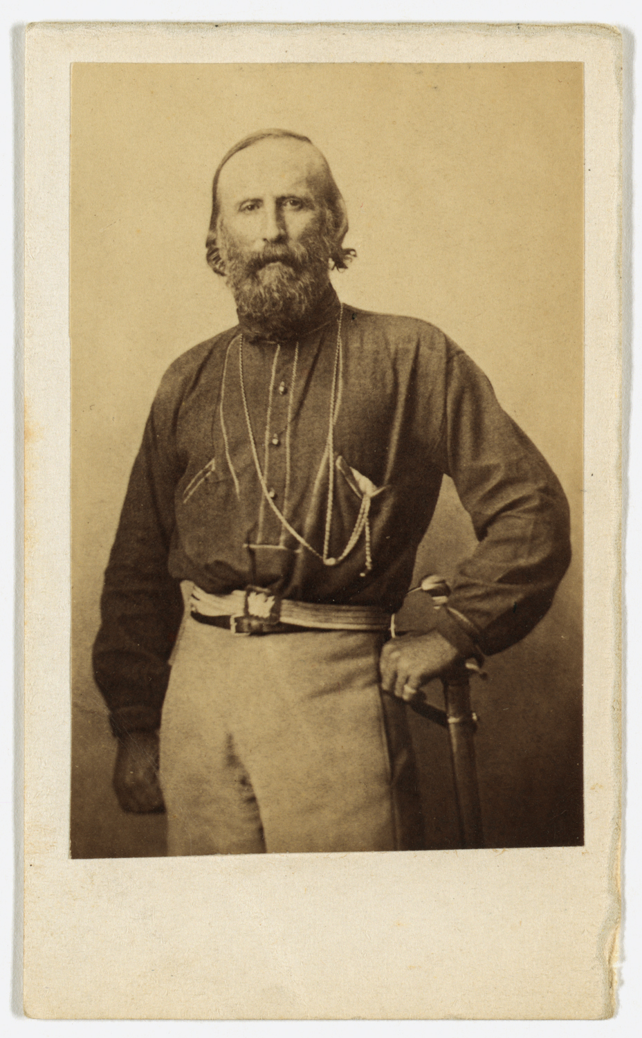 "arribaldi [i.e., Garibaldi] taken in Naples, Italy" "Giuseppe Girabaldi, half-length portrait, standing, facing front." "1 photographic print on carte de visite mount : albumen."